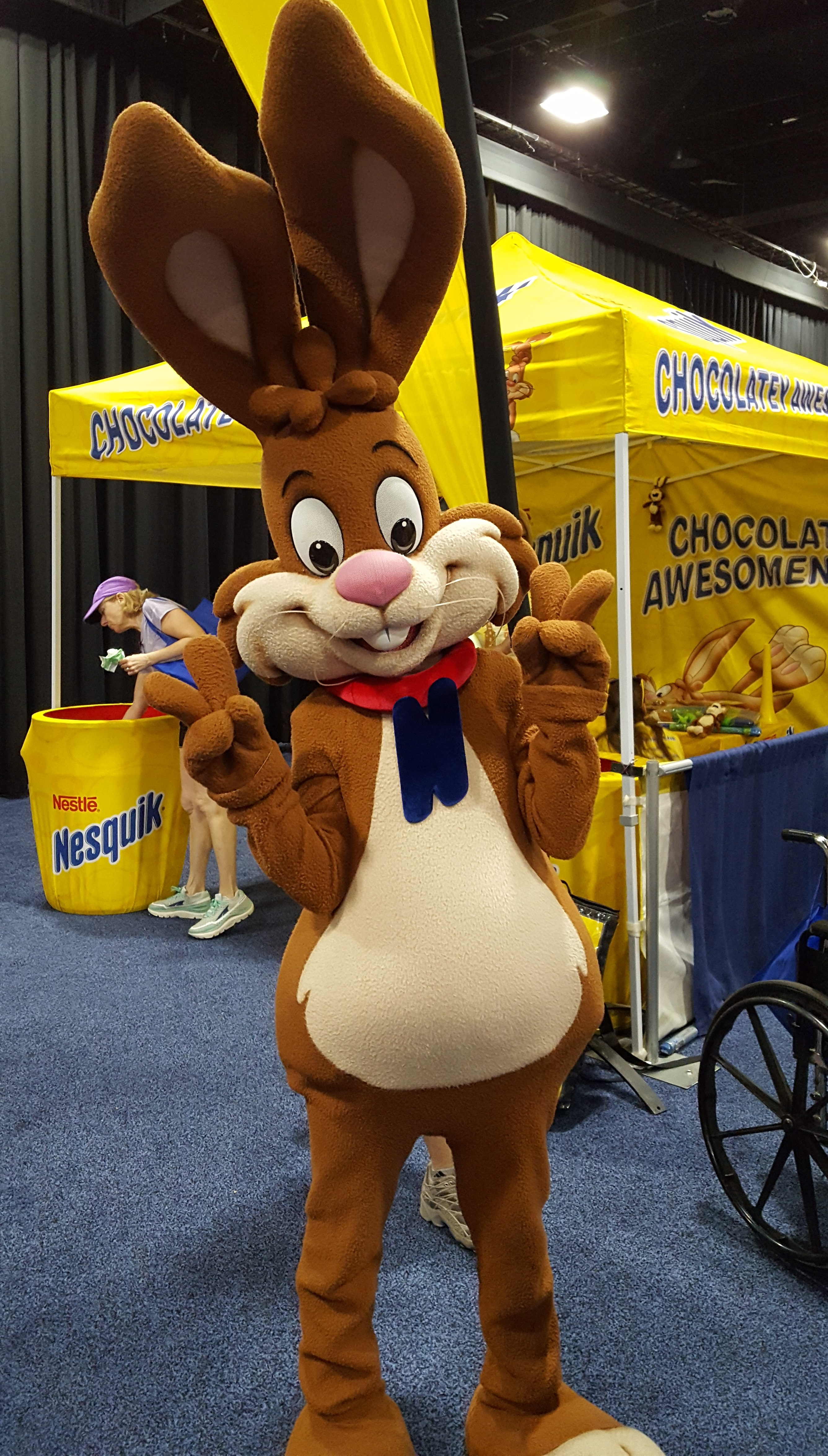 The Nesquik Bunny at the Boston Run to Remember Expo in 2016.